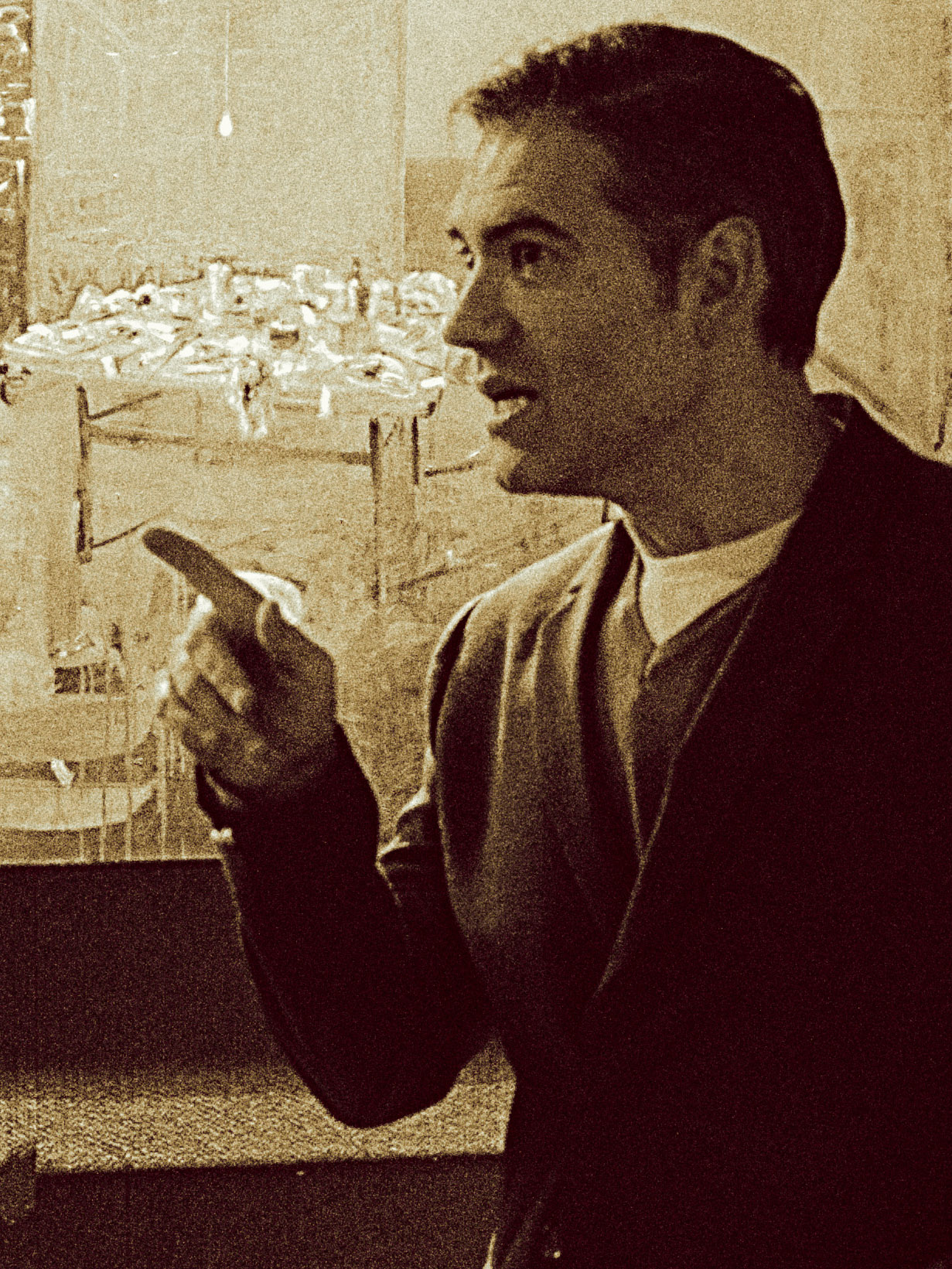 A pic of composer Roberto Brambilla in Microludi 2017